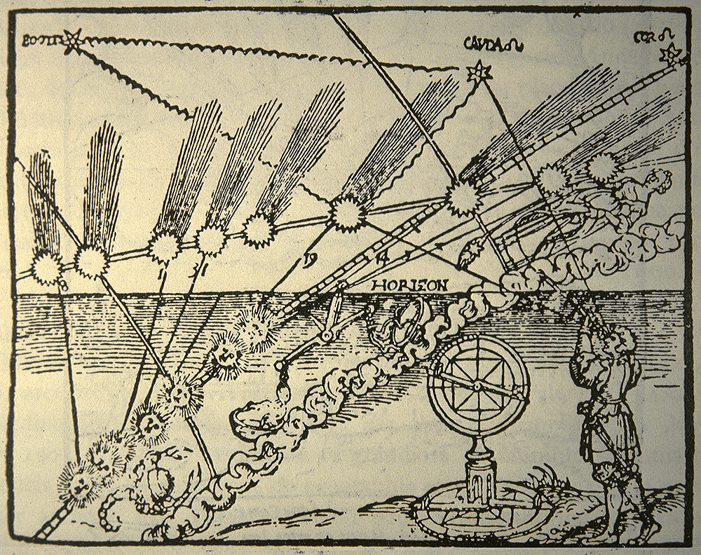 Observations of comet C/1532 R1 seen in October and November 1532.